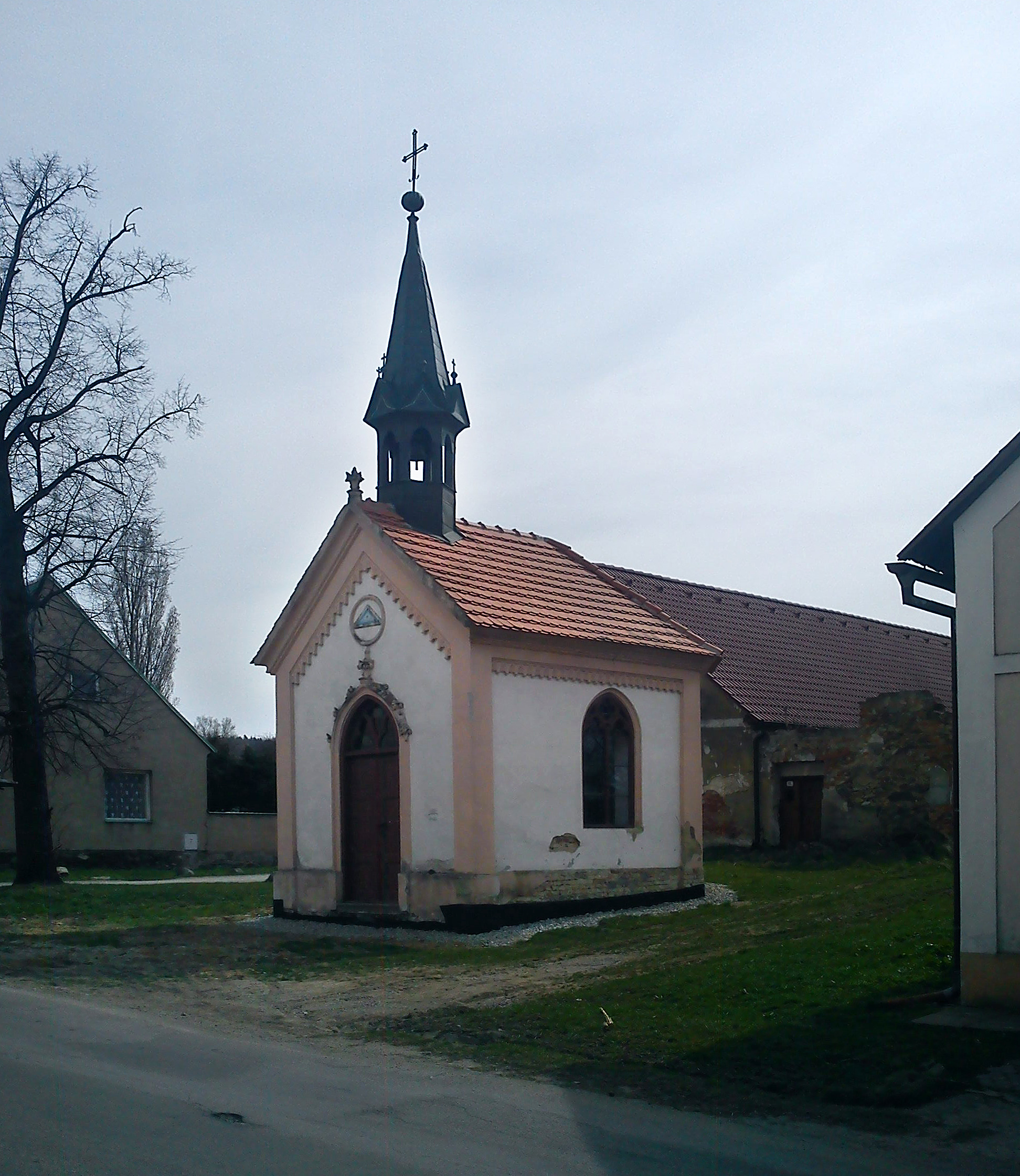 Holy Trinity Chapel (1885) in the village of Hlinsko, part of the town of Rudolfov, České Budějovice District. Česky: Kaple Nejsvětější Trojice z roku 1885 ve vsi Hlinsko, součásti města Rudolfov v okrese České Budějovice.